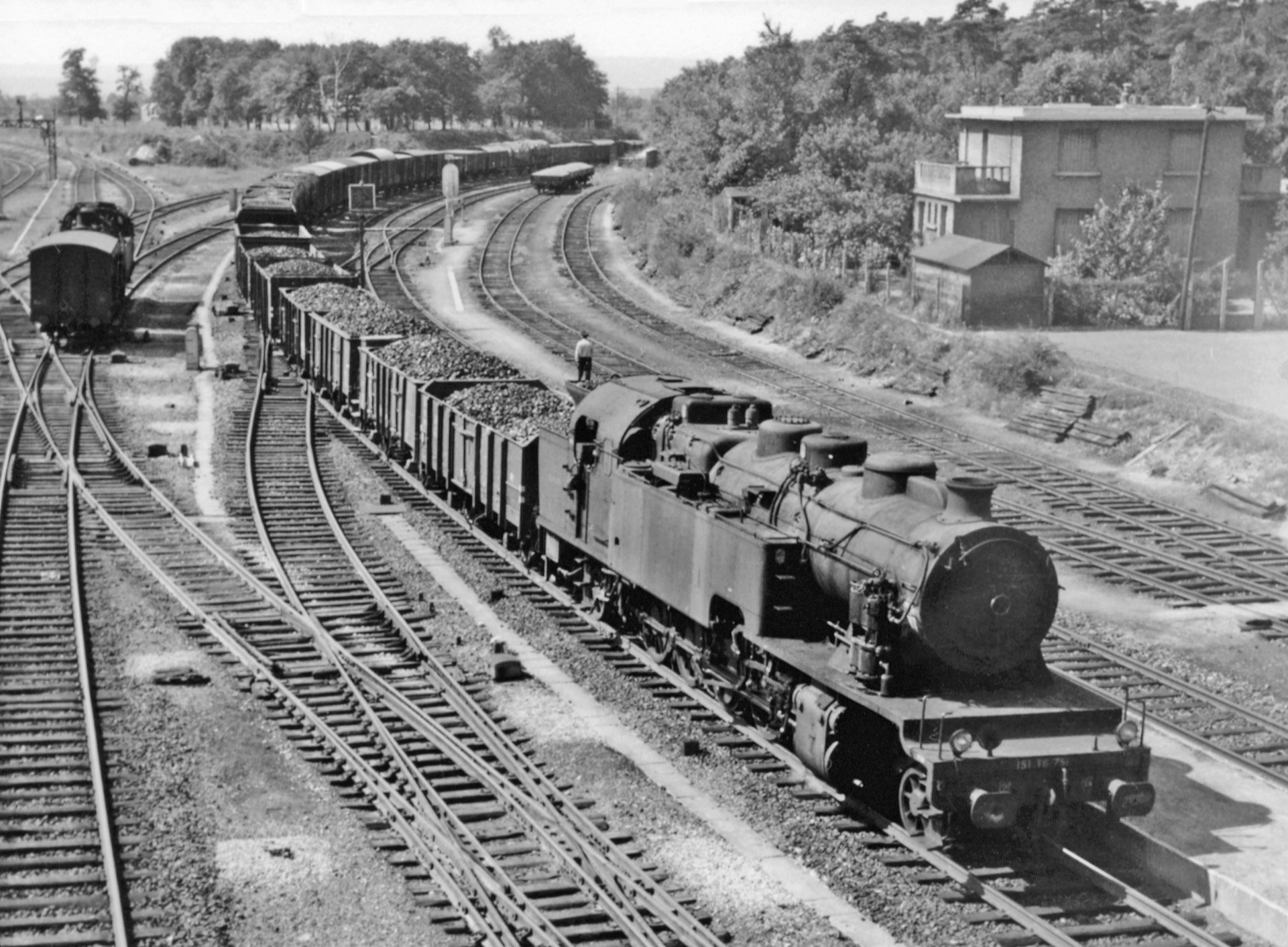 Freight train headed by a 2-10-2T approaching Achères from the Pontoise line, 1959.